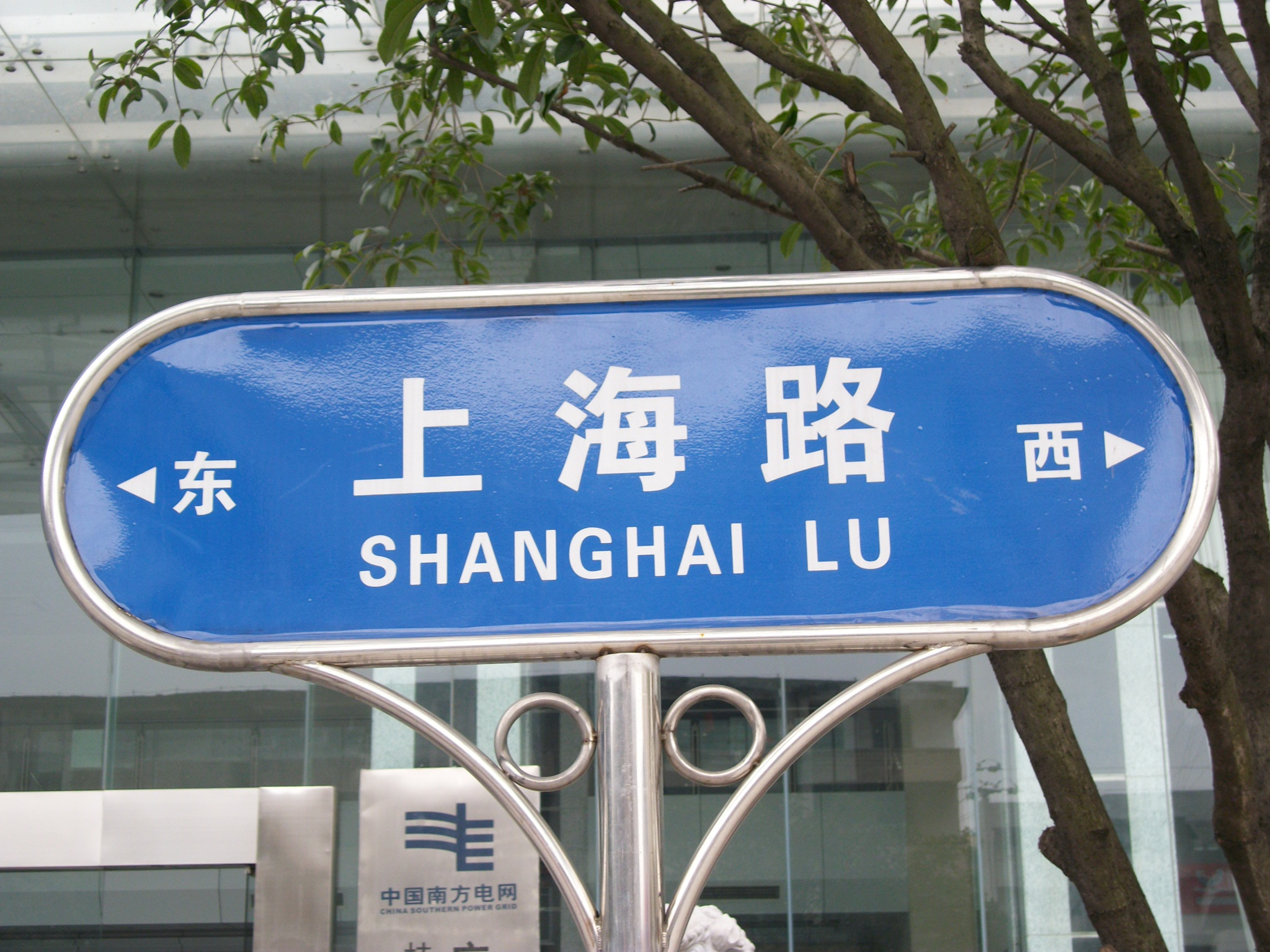 Shanghai Road Interchange, Guilin.